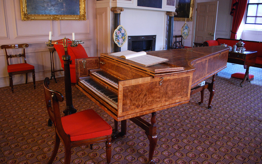 King George III's harpsichord in Kew Gardens - Maker : Burkat Shudi